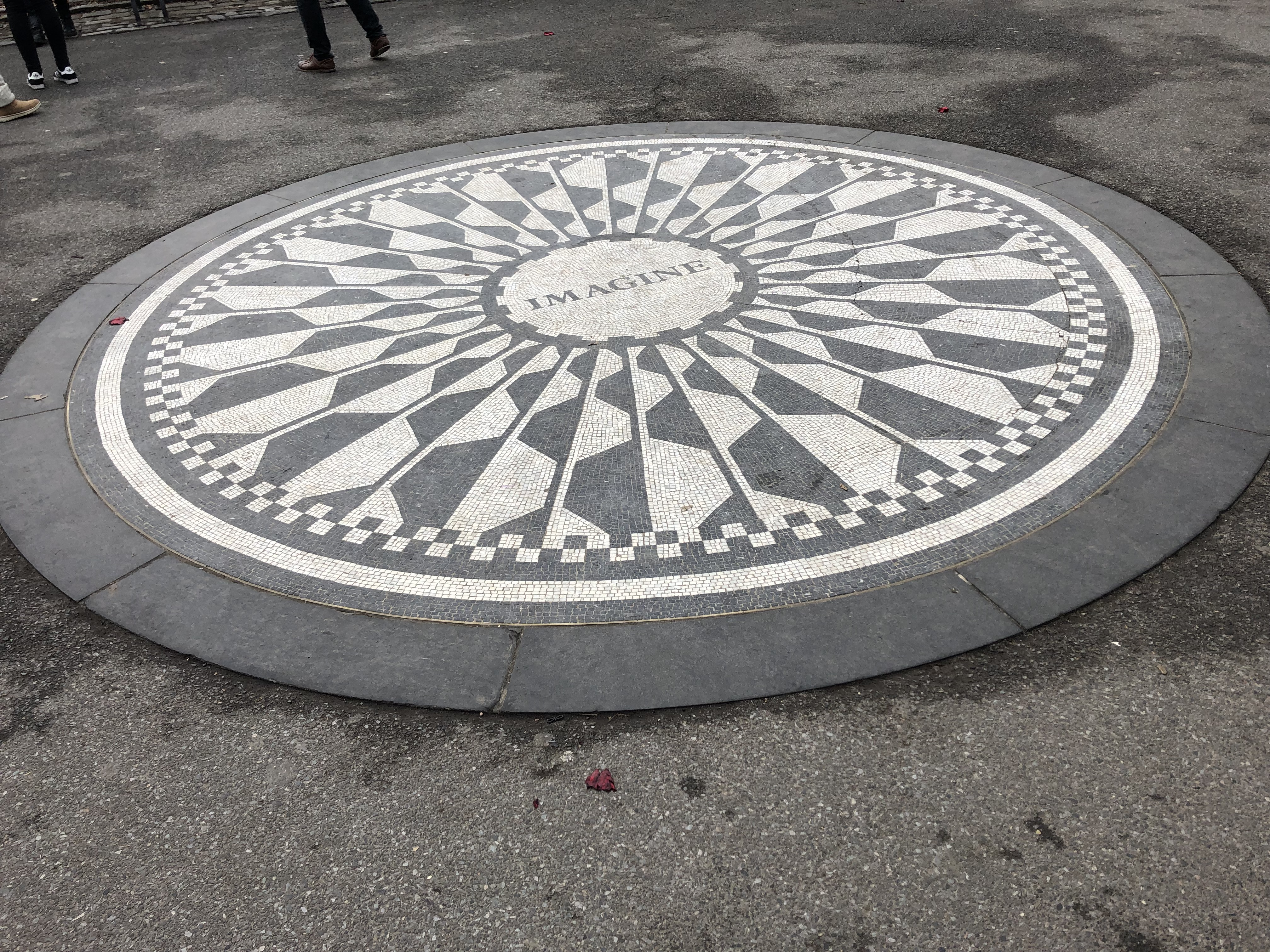 Strawberry Fields Memorial in January 2019